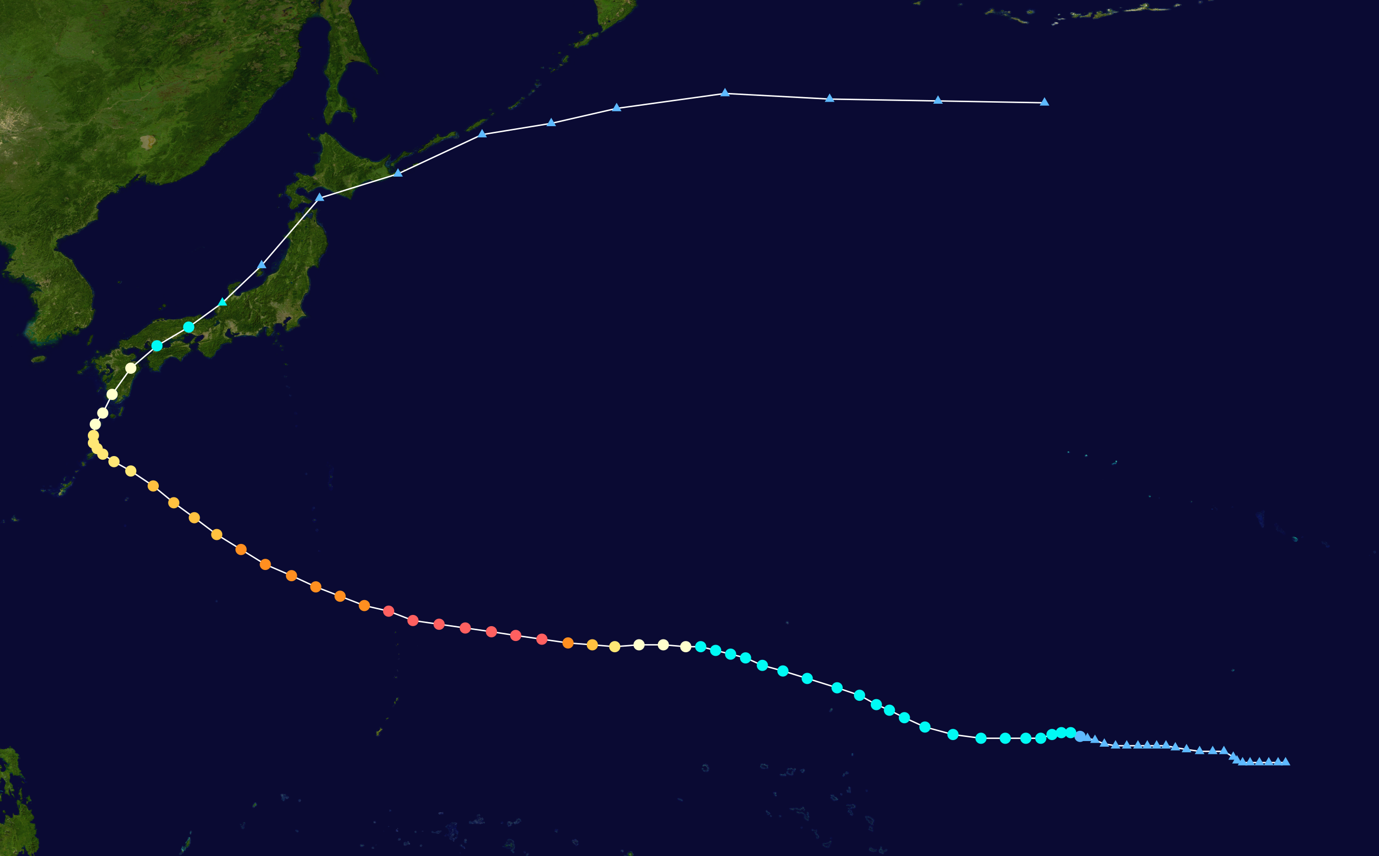 Typhoon Oliwa (1997) track. Uses the color scheme from the Saffir-Simpson Hurricane Scale.